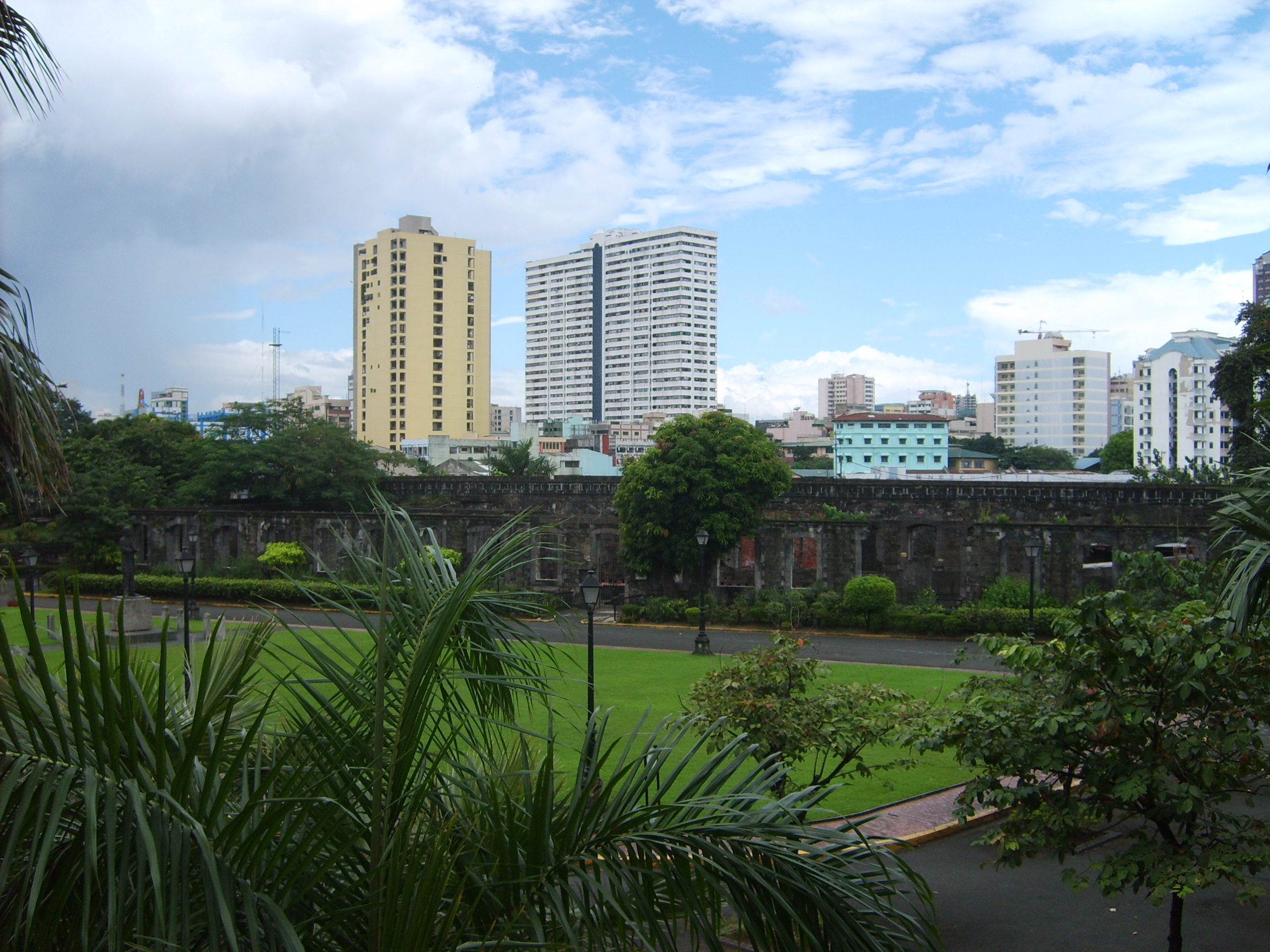 Fort Santiago in Intramuros, Manila, Philippines.